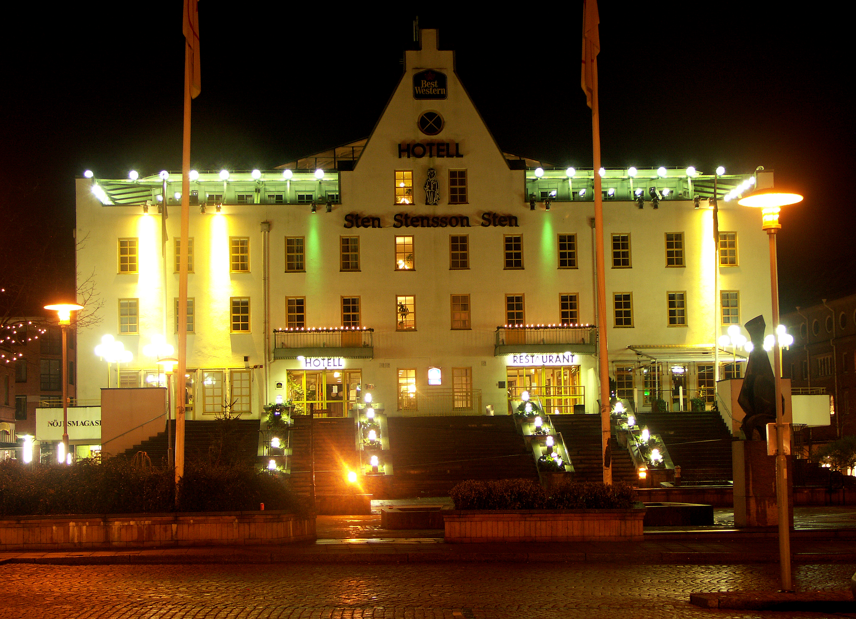 Hotel Sten Stensson Sten in Eslöv, Sweden